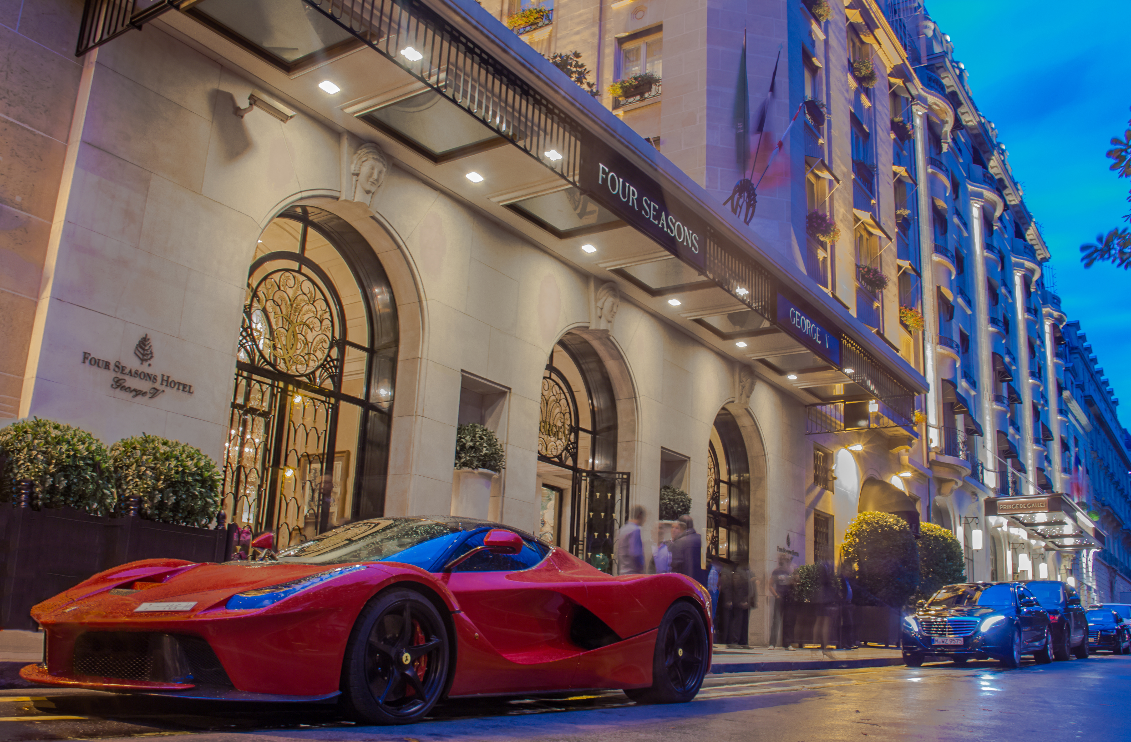 Ferrari, Hôtel George V, Paris